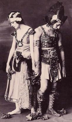 Natacha Rambova & Theodore Kosloff in Aztec costumes, created by Rambova and used in The Woman God Forgot